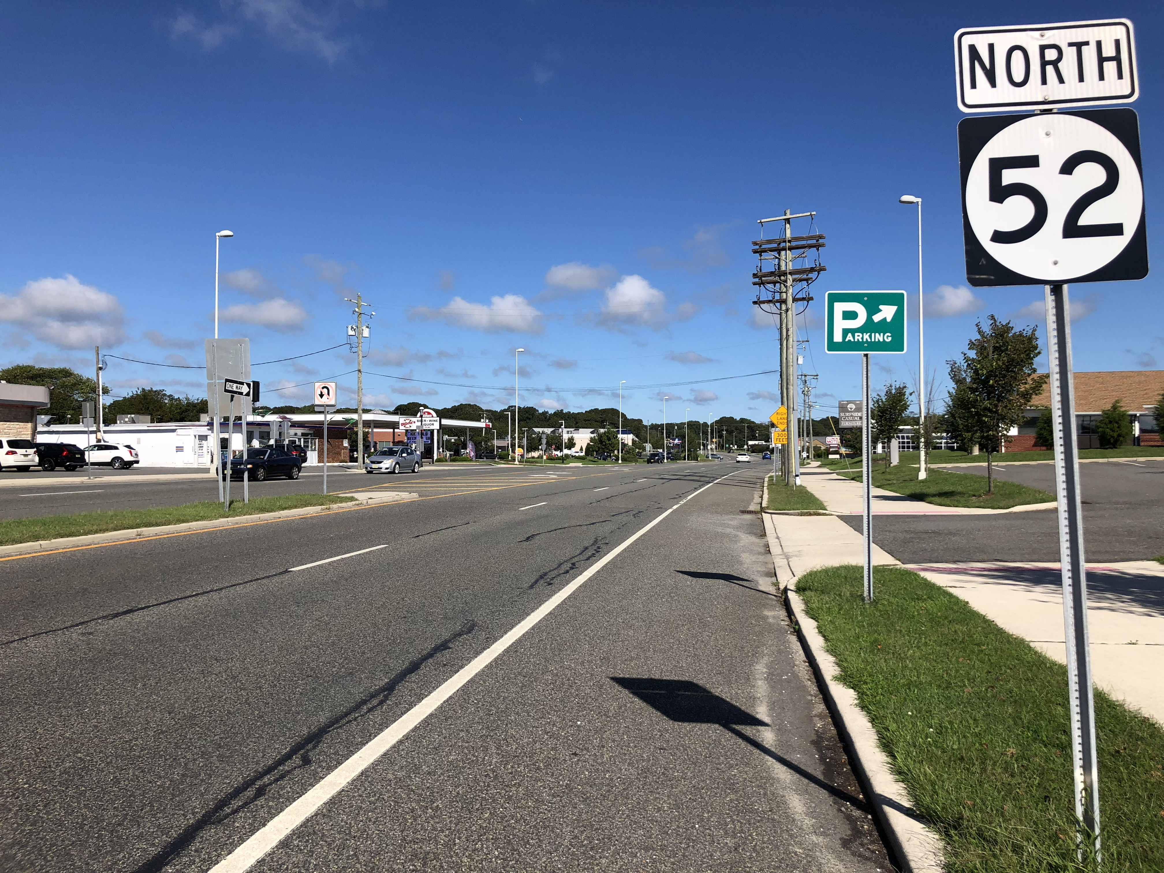 View north along New Jersey State Route 52 (MacArthur Drive) at Atlantic County Route 585 (Shore Road) and Atlantic County Route 559 (Mays Landing Road) in Somers Point, Atlantic County, New Jersey